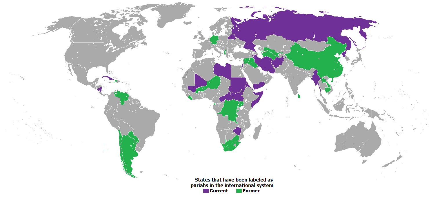 Map of Pariah States